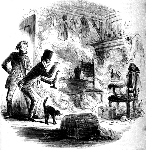 The Appointed Time Phiz (Hablot K. Browne) 1853 Etching 4 1/2 x 4 3/8 inches on a page of 8 7/16 x 5 inches Facing p. 320 (ch. 32, "The Appointed Time") of Dickens's Bleak House